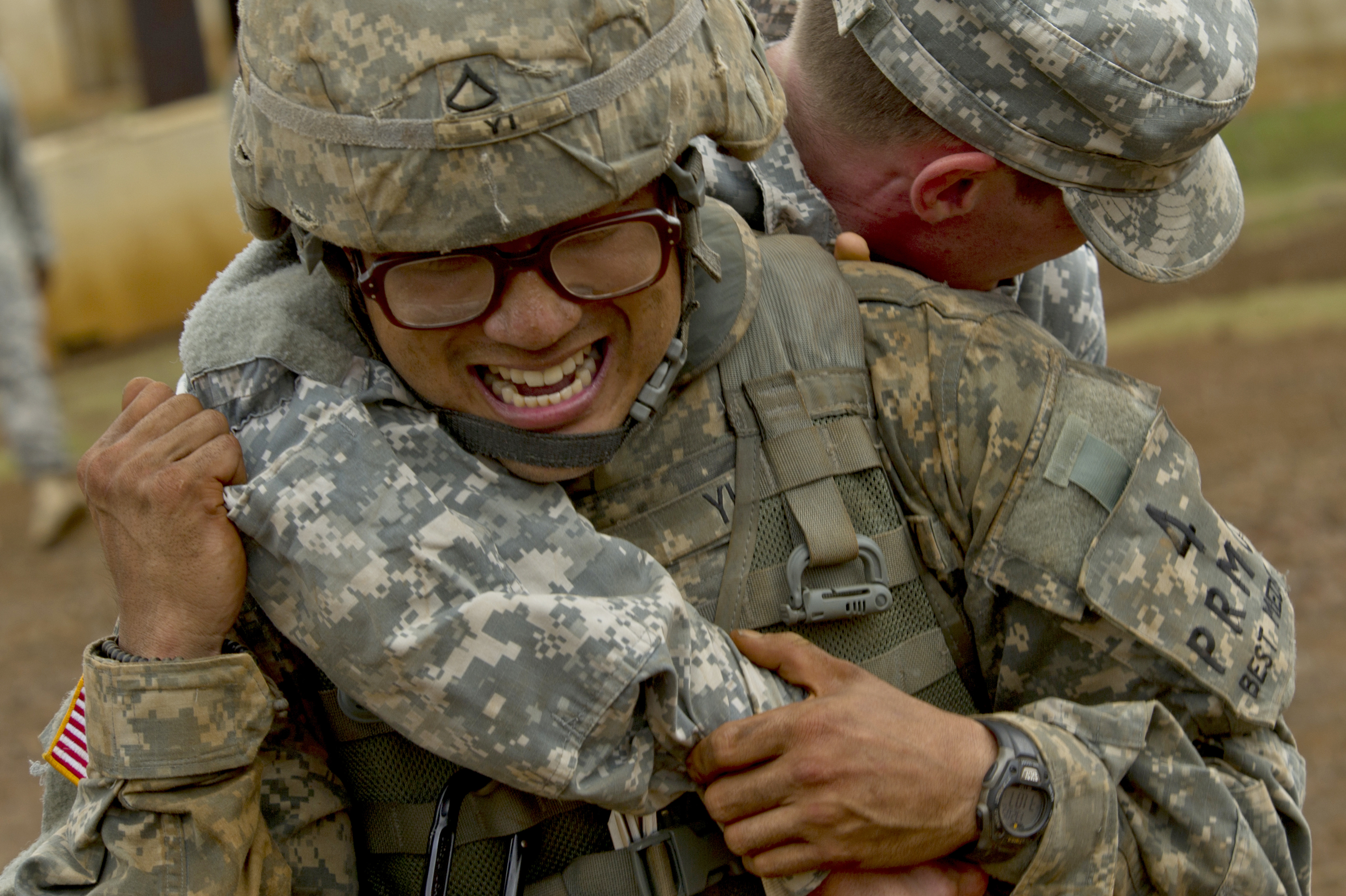 U.S. Army Pfc. Joshua Yi, a combat medic assigned to Bravo Company, 121st Combat Support Hospital, Camp Yungsan, Republic of Korea, carries a simulated casualty during a combat scenario as part of the 2012 Pacific Regional Medical Command Best Medic Competition Aug. 30, 2012, at Schofield Barracks, in Wahiawa, Hawaii. The PRMC Best Medic competition is a 72-hour physical and mental test of U.S. Army Medics leadership, teamwork, tactics, medical knowledge and warrior tasks. The winners of the PRMC competition move on to compete for the Army’s Best Medic at Ft. Sam Houston in San Antonio, Texas. (Department of Defense photo by U.S. Air Force Tech. Sgt. Michael R. Holzworth/Released)